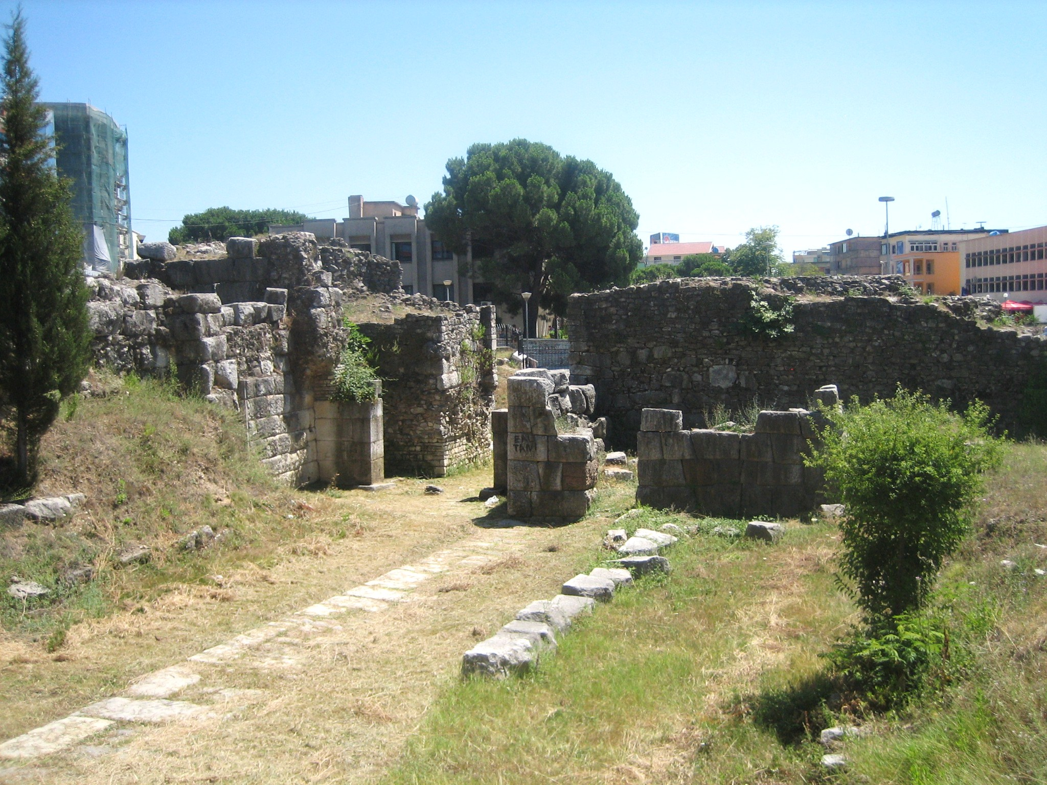 Ancient Greek colony named Lissus, wall remains in Lezhë, Albania